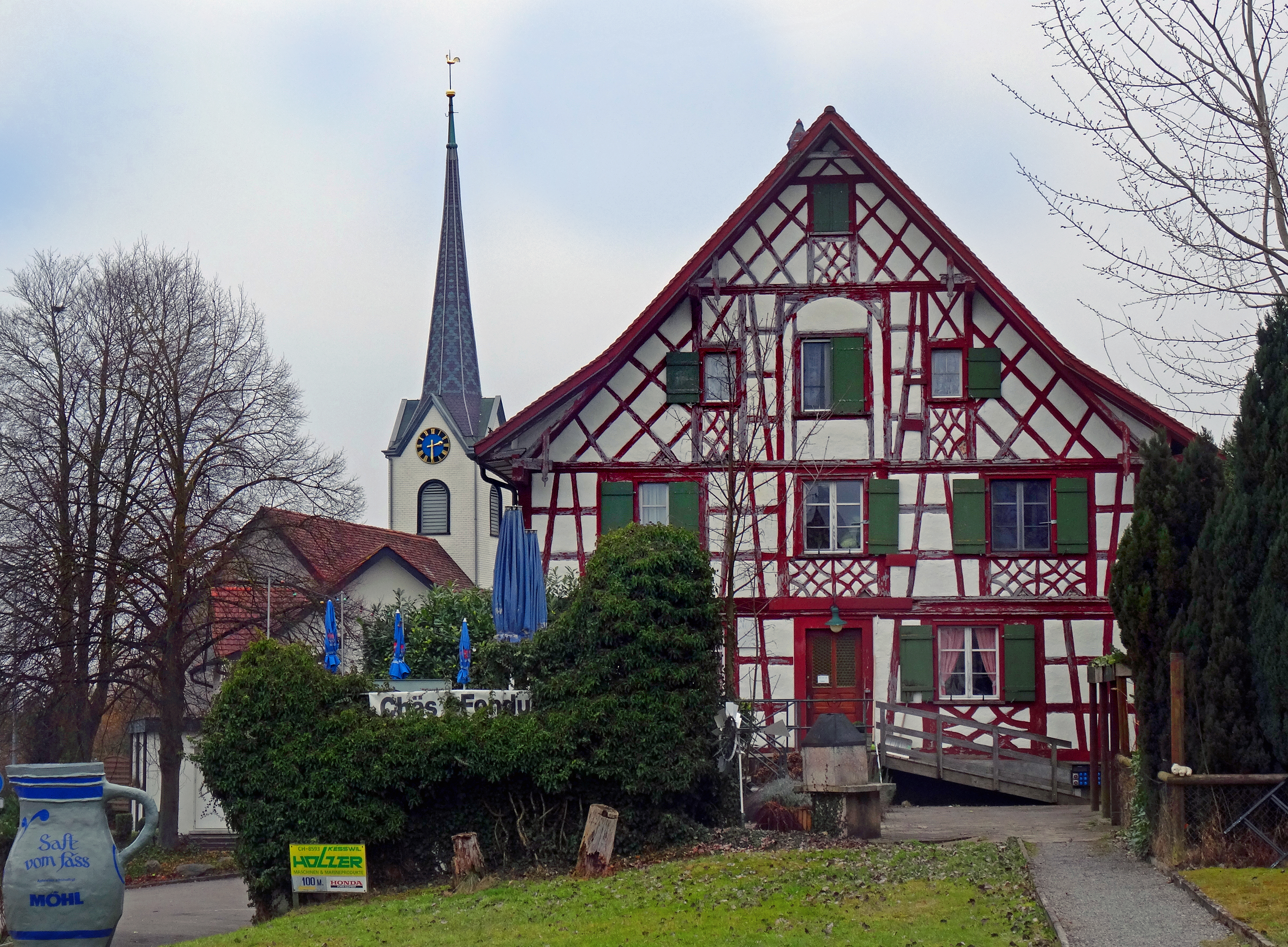 Timber framed house and church in Kesswil, Switzerland.